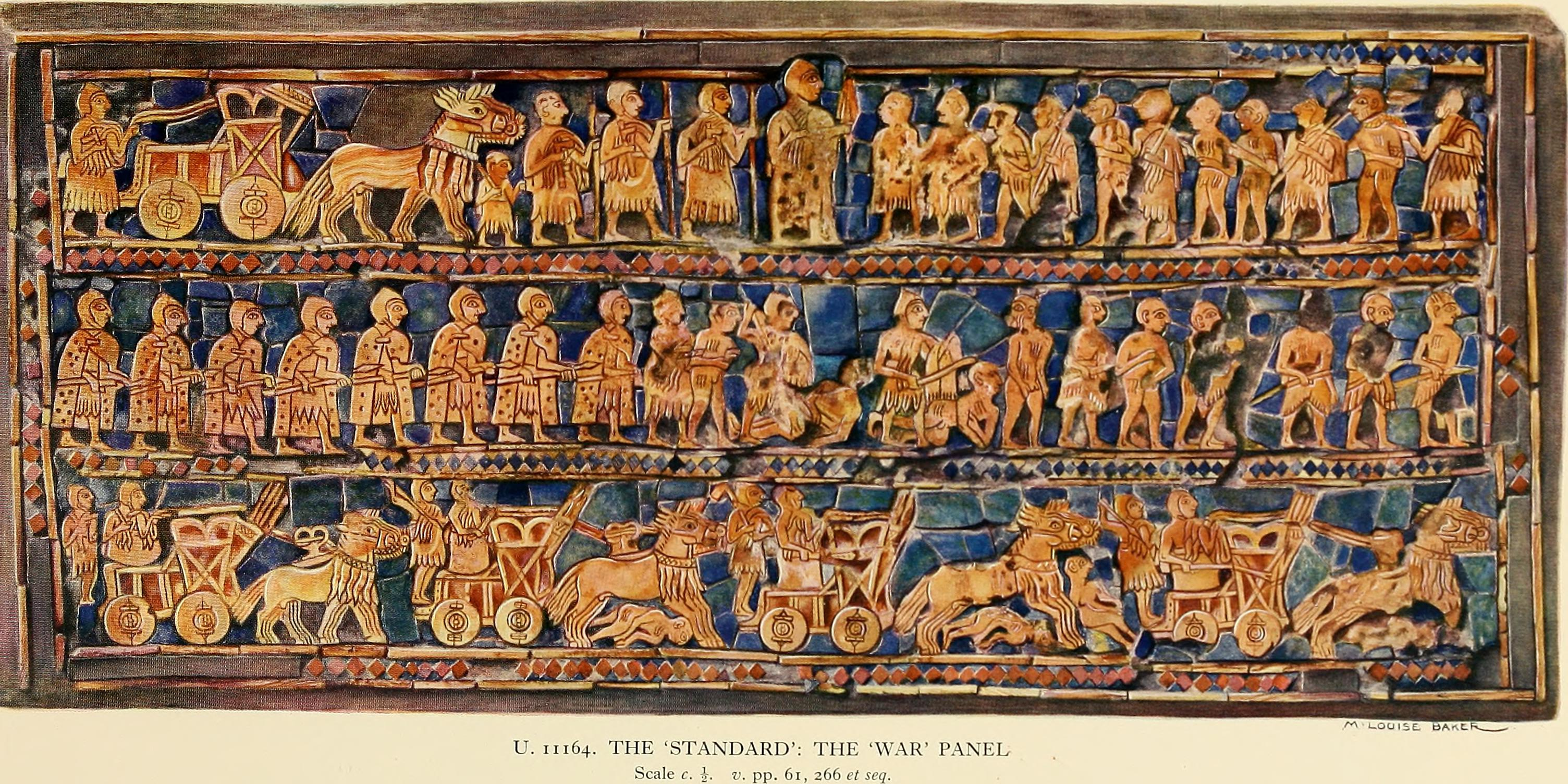 Title: Ur excavations Year: 1900 (1900s) Authors: Joint Expedition of the British Museum and of the Museum of the University of Pennsylvania to Mesopotamia Hall, H. R. (Harry Reginald), 1873-1930, ed Woolley, Leonard, Sir, 1880-1960 Legrain, Leon, 1878- ed Subjects: Publisher: (n.p.) Pub. for the Trustees of the Two Museums by the aid of a grant from the Carnegie Corporation of New York Text Appearing Before Image: PLATE 92 Text Appearing After Image: PLATE 93